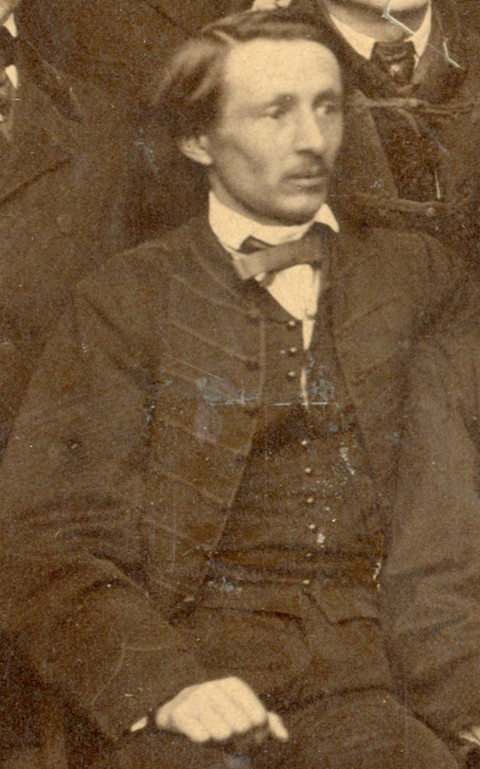 Martin Sekulić, mathematics and physics teacher, in 1868